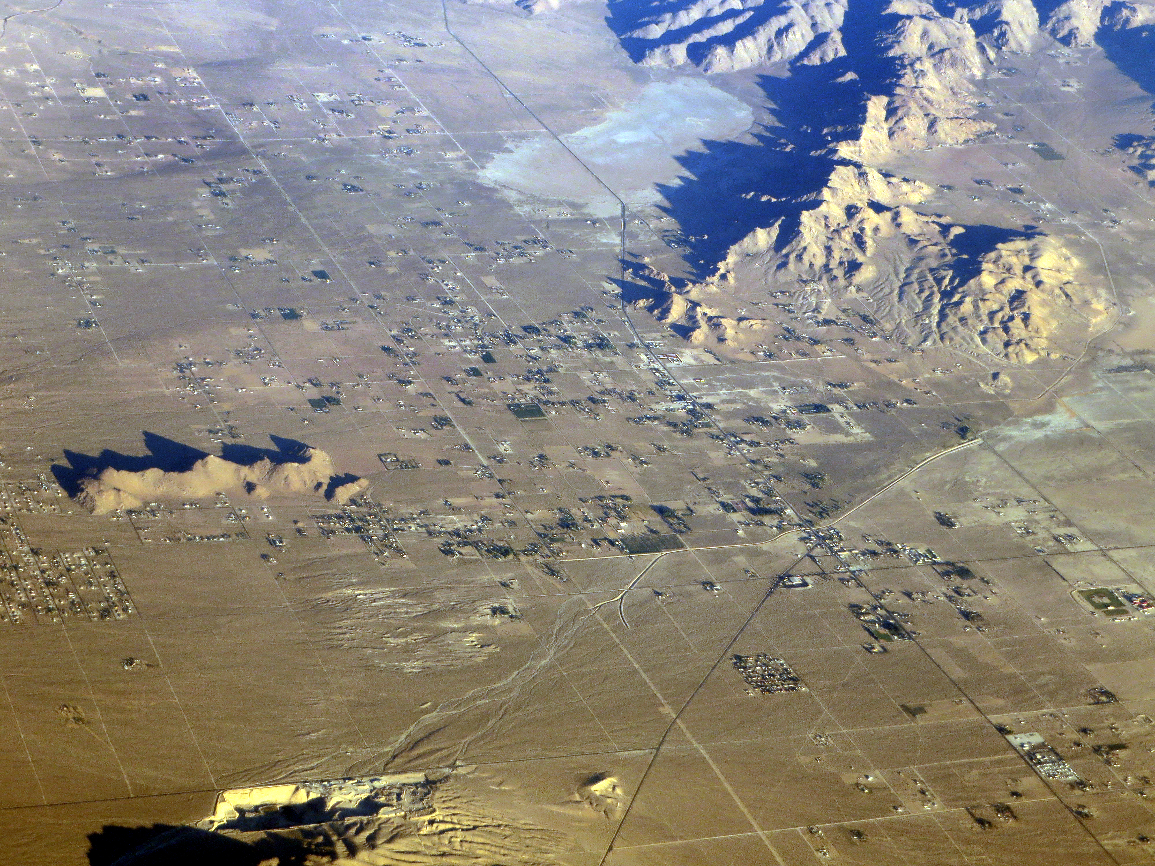 Lucerne Valley is a census-designated place located in the Mojave Desert of western San Bernardino County, California. It lies east of the Victor Valley, whose population nexus includes Victorville, Apple Valley, and Hesperia. The population was 5,811 at the 2010 census. Lucerne Valley is located 19 miles east of Apple Valley and 20 miles downhill north of Big Bear in the southern reaches of the Mojave Desert. It is surrounded by several mountain ranges which include the Granite mountain range, the Ord mountain range, and the San Bernardino mountain range. The heart of Lucerne Valley is located on the crossroads of State Route 247 (Old Woman Springs Road / Barstow Road) and State Route 18. Yucca Valley lies 45 miles east via Route 247/Old Woman Springs Road.